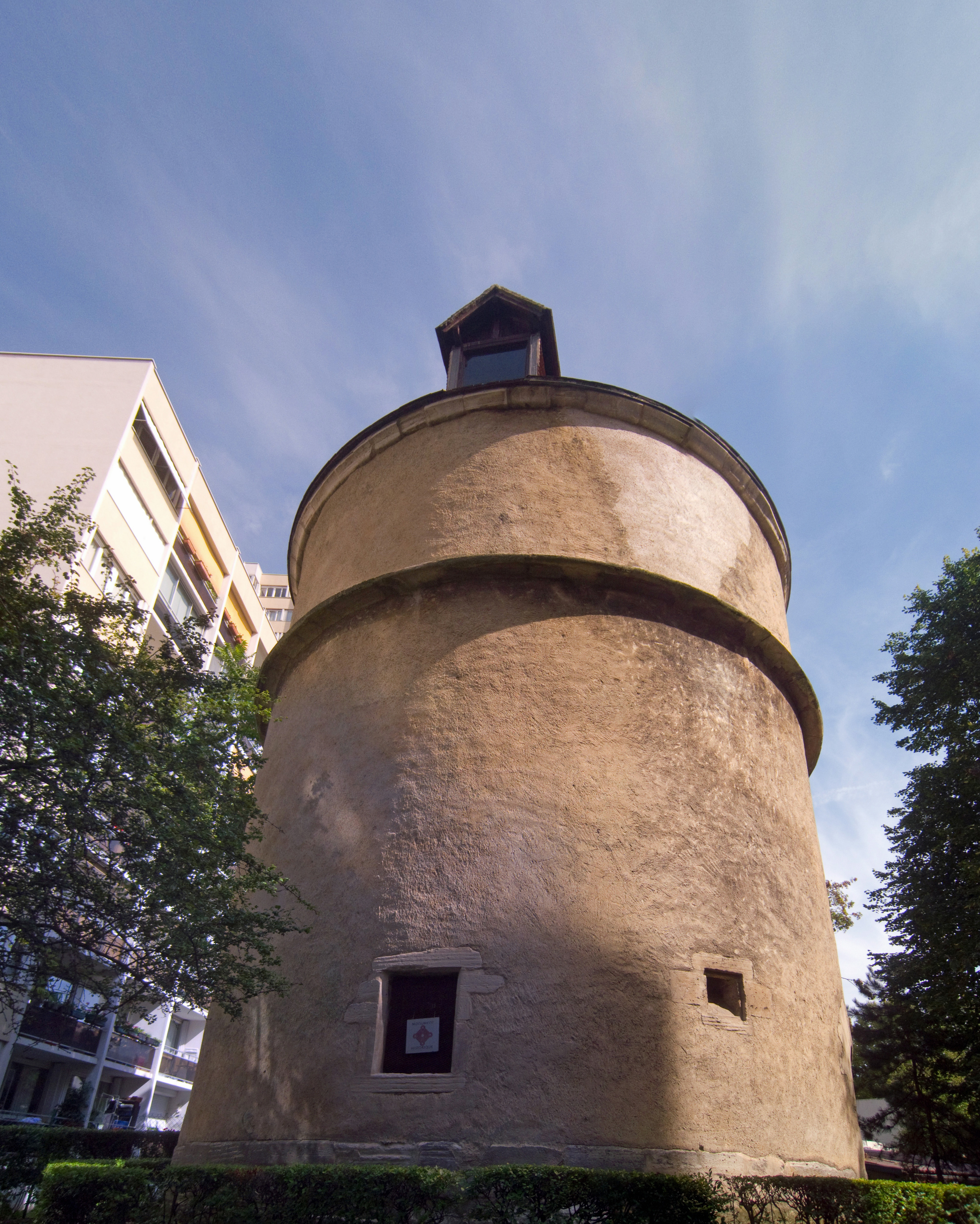 Dovecote in Créteil, Val-de-Marne, France.